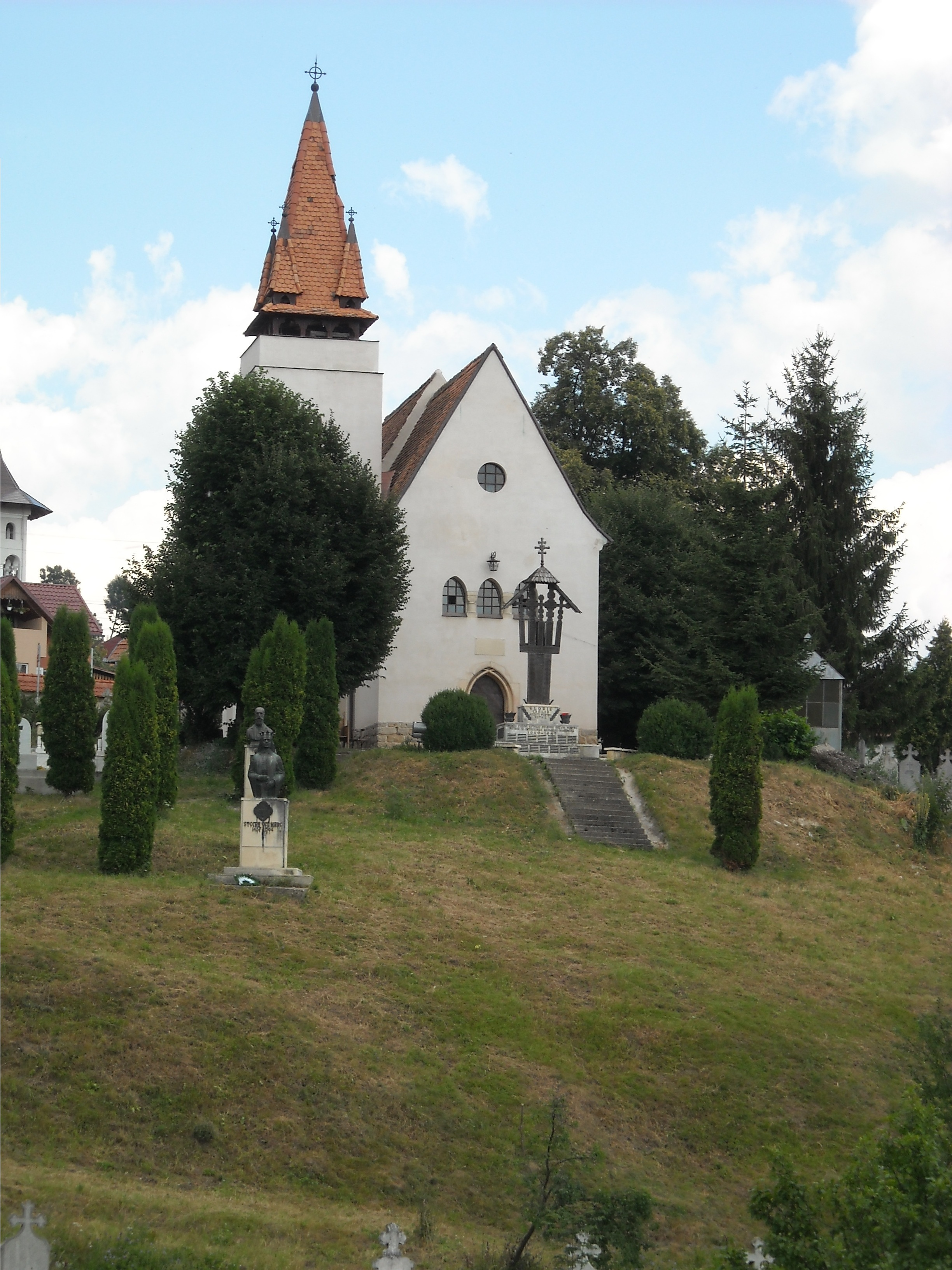 Orthodox church in Feleacu